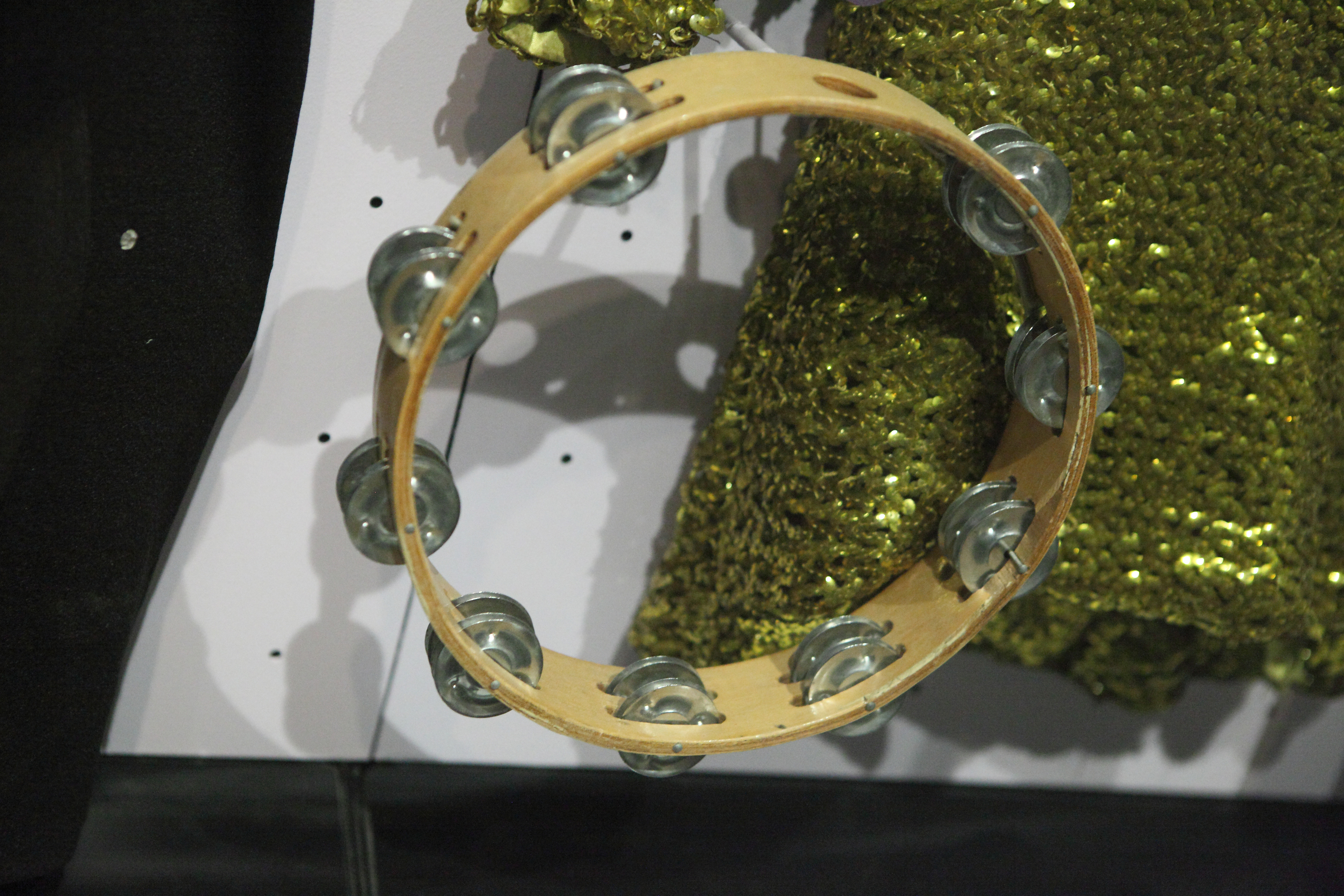 Tambourine once used by Clara Ward of the Ward Singers at the Rock and Roll Hall of Fame in Cleveland, Ohio. Flickr Tags: ohio cleveland instrument tambourine rockandrollhalloffame claraward wardsingers. Flickr Tags: Rock and Roll Hall of Fame Cleveland Ohio. from Flickr album "Rock and Roll Hall of Fame" by Sam Howzit